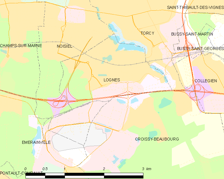 Map of French municipality Lognes